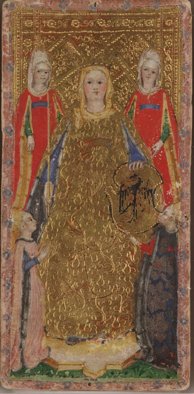 Empress from Cary Yale Tarot desk